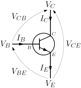 I created this image for the "avalanche transistor" voice by using "Circuit_macros" for LaTeX and PSTricks. Summary I created this image for the "avalanche transistor" entry by using "Circuit_macros" for LaTeX and PSTricks.